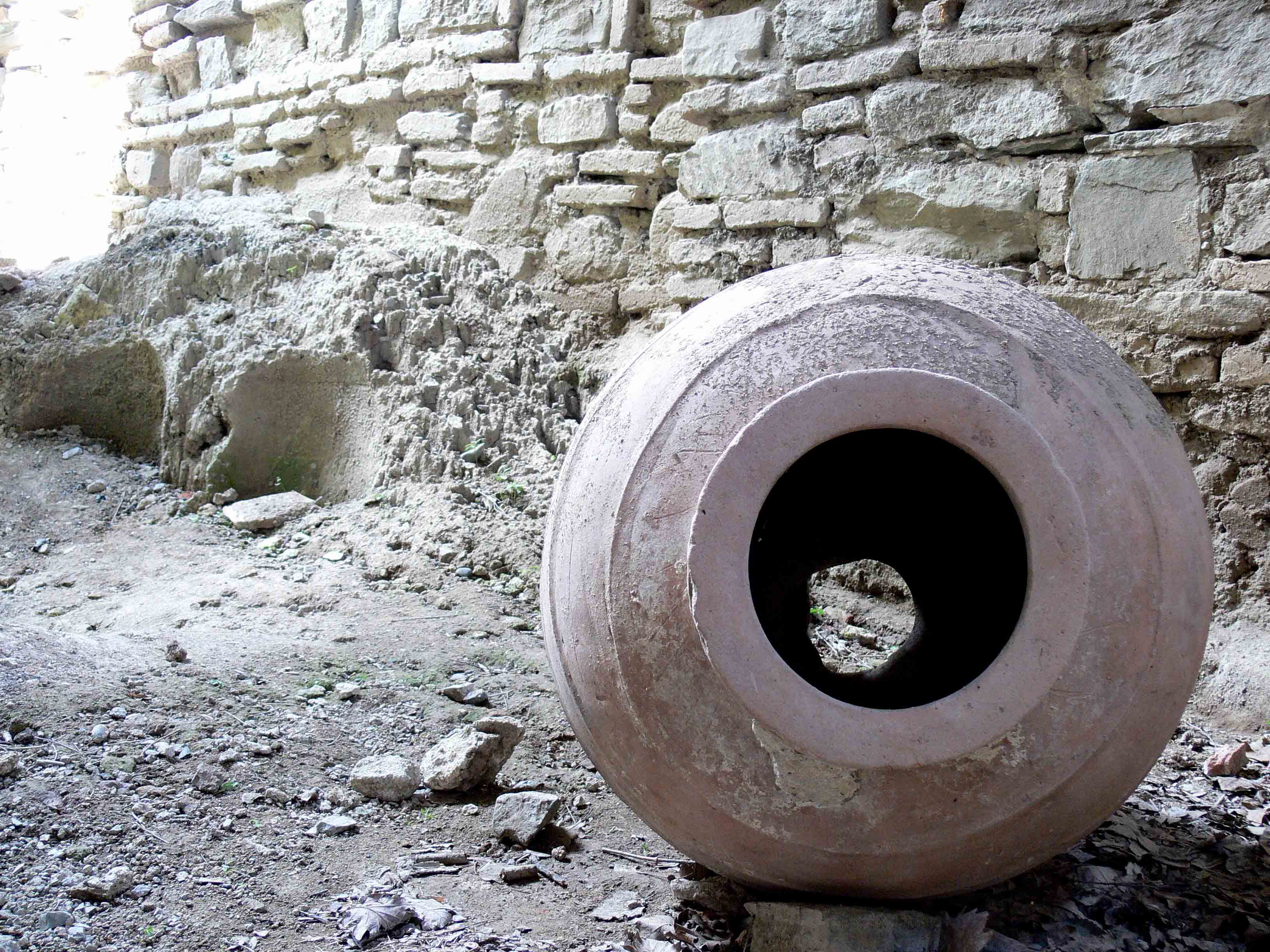 Jug (kvevri in georgian) for making wine